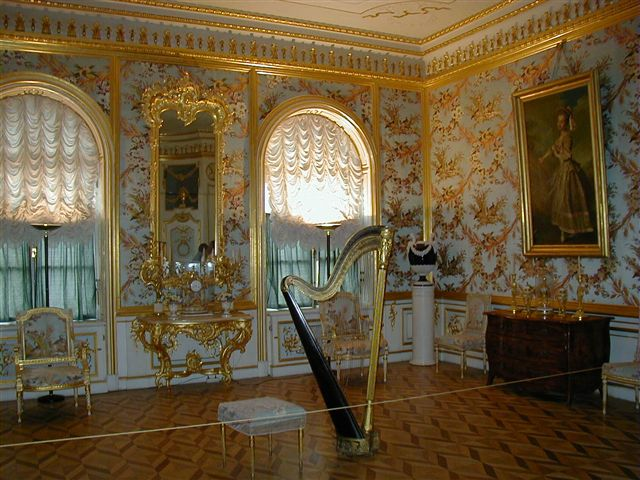 French style interior of the Peterhof, music room with harp.